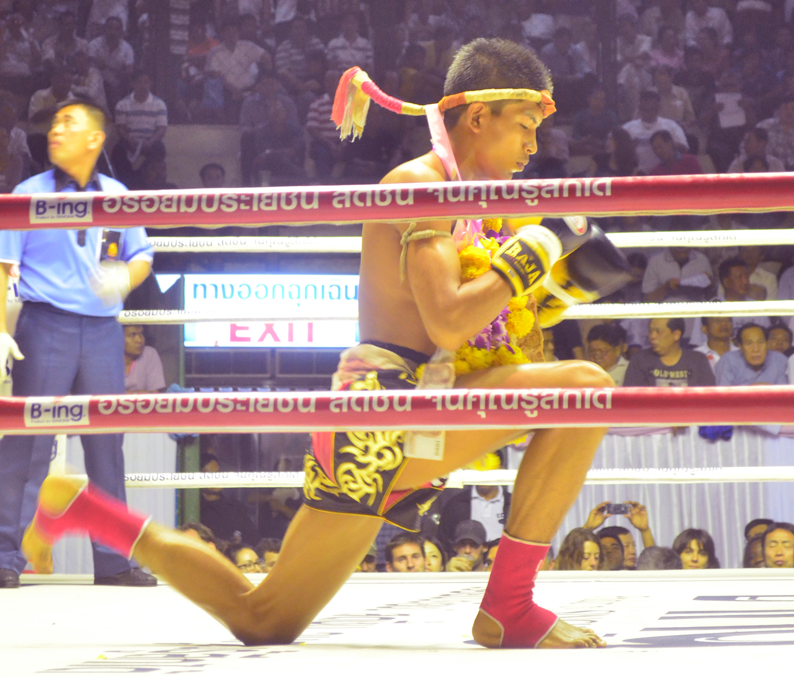 Mondam S.Weerapol